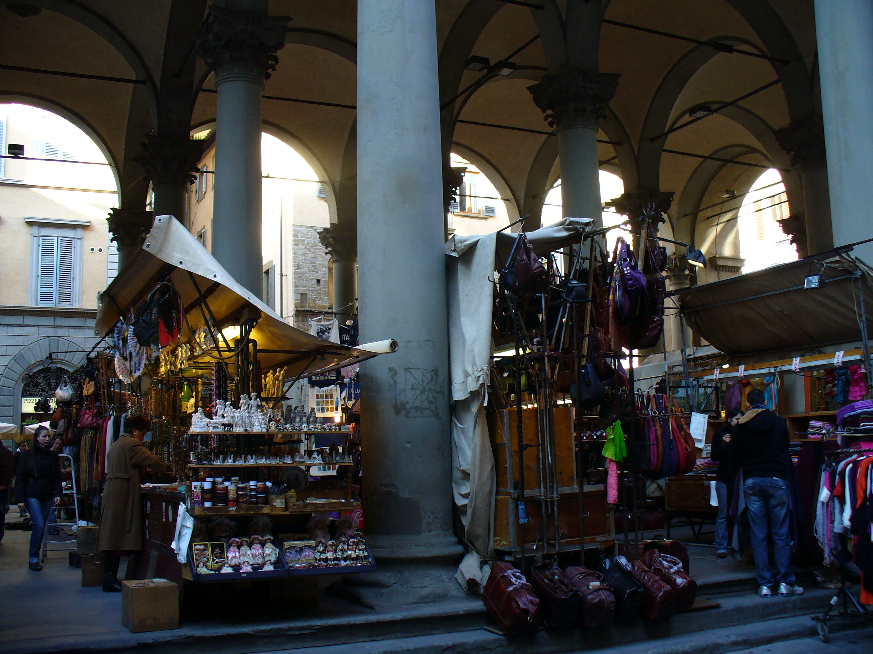 Loggia del Mercato Nuovo